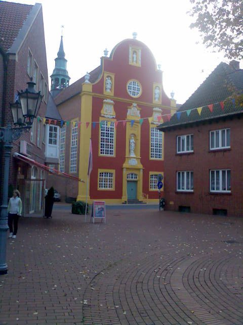 Gymnasialkirche Meppen